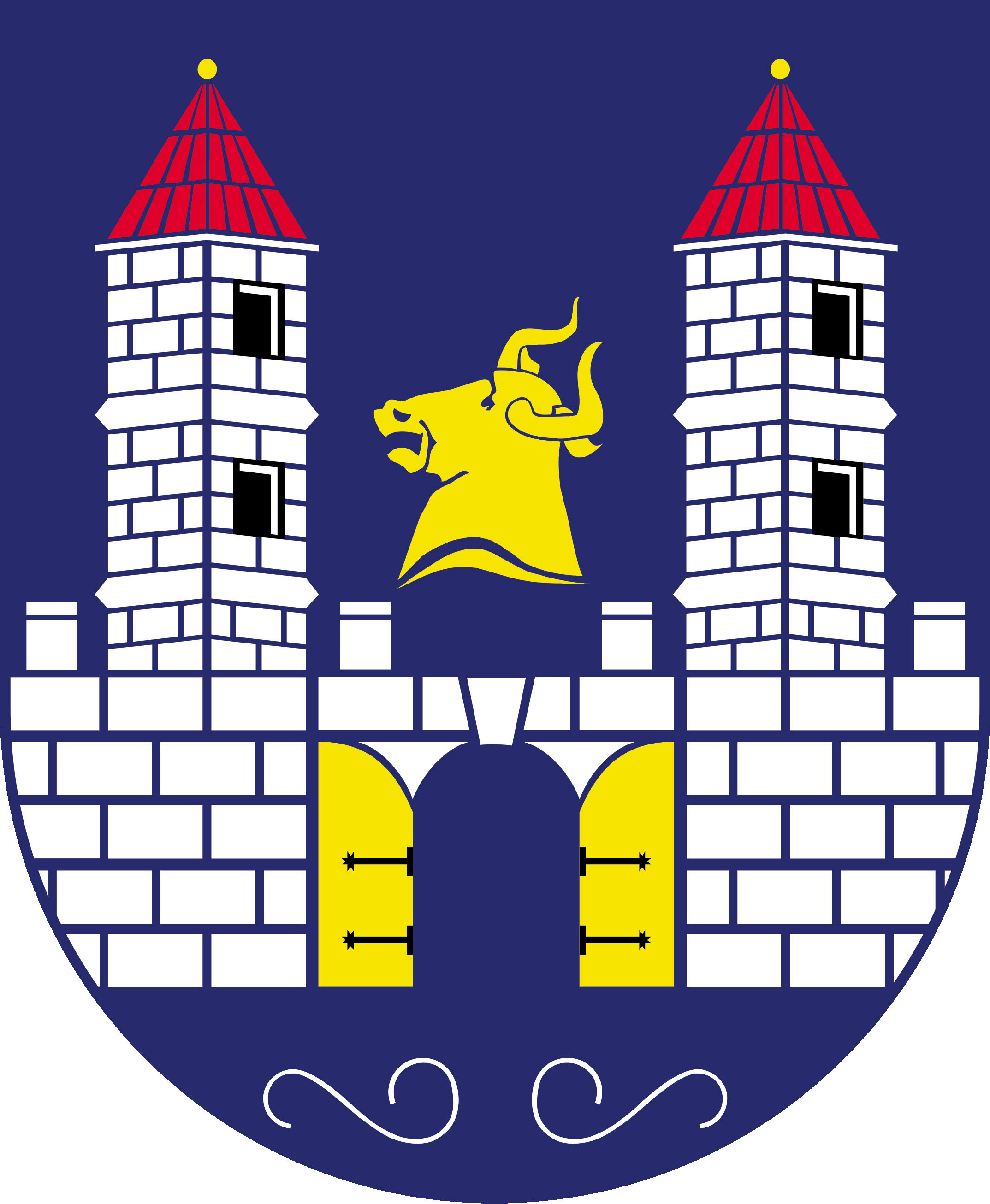 Municipal coat of arms of Svitavy town, Czech Republic.